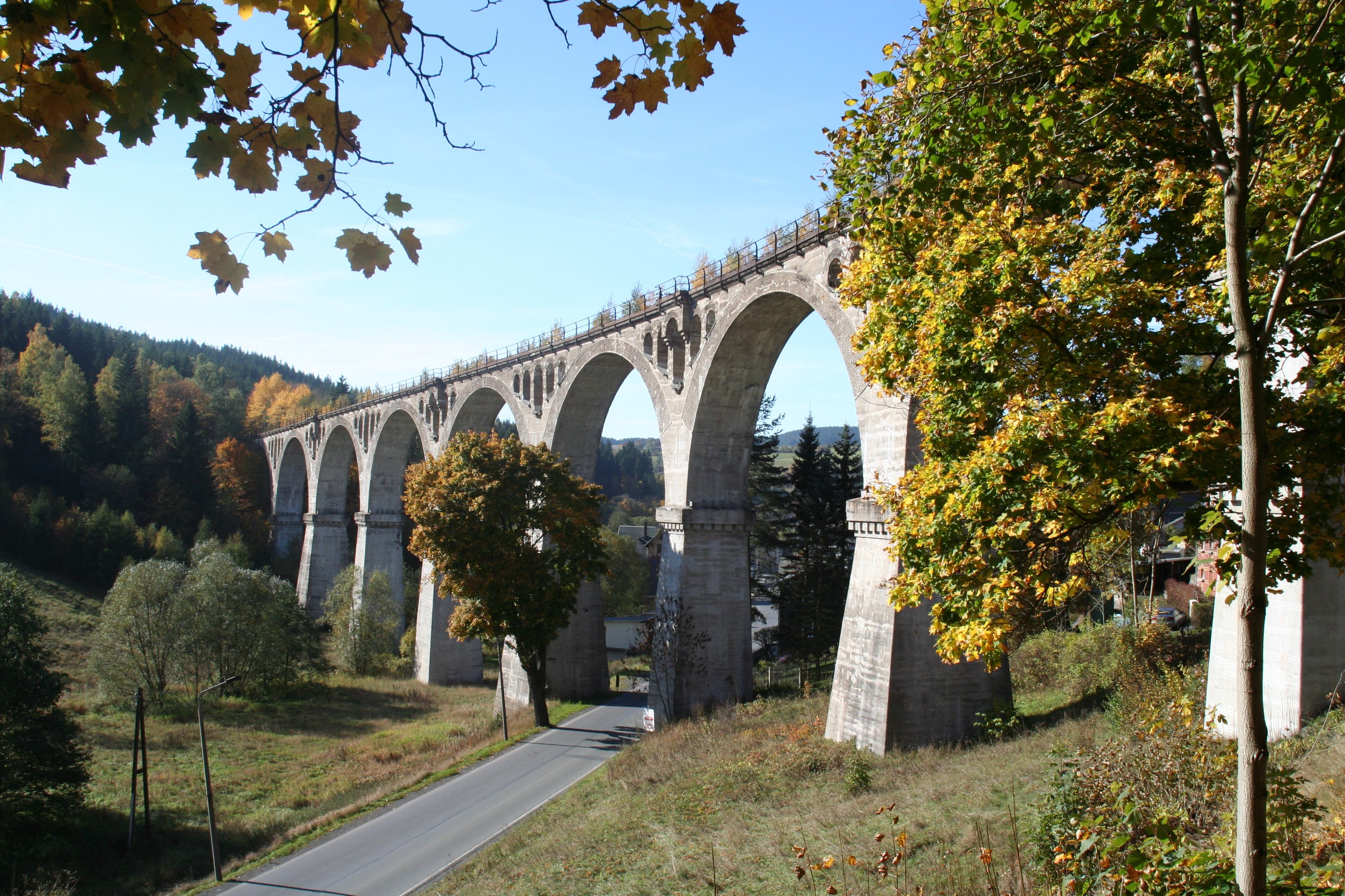 Railwai viaduct upon the Piesau (river) in the area of the so-called Hammerwiesen, close to the station “Lichte (Thuringia) East” in south Thuringia.